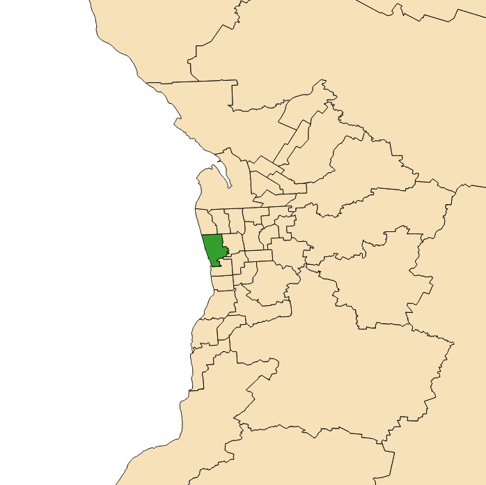 Electoral district 2018 boundaries shown in green